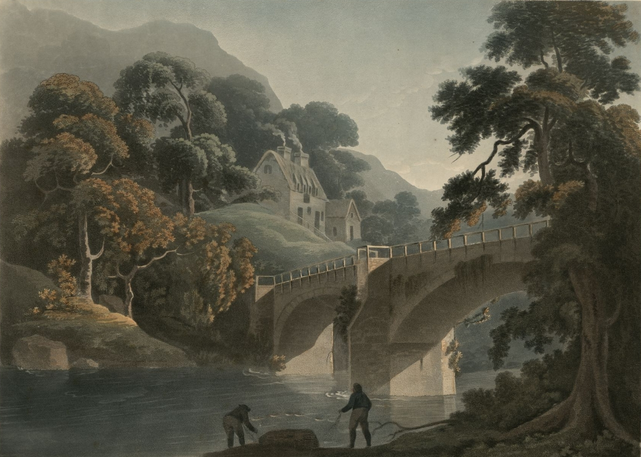 To Charles Browne Esqr this view of Overton Bridge is with the greatest respect inscribed by his obedient & obliged servants T. Walmsley & F. Jukes